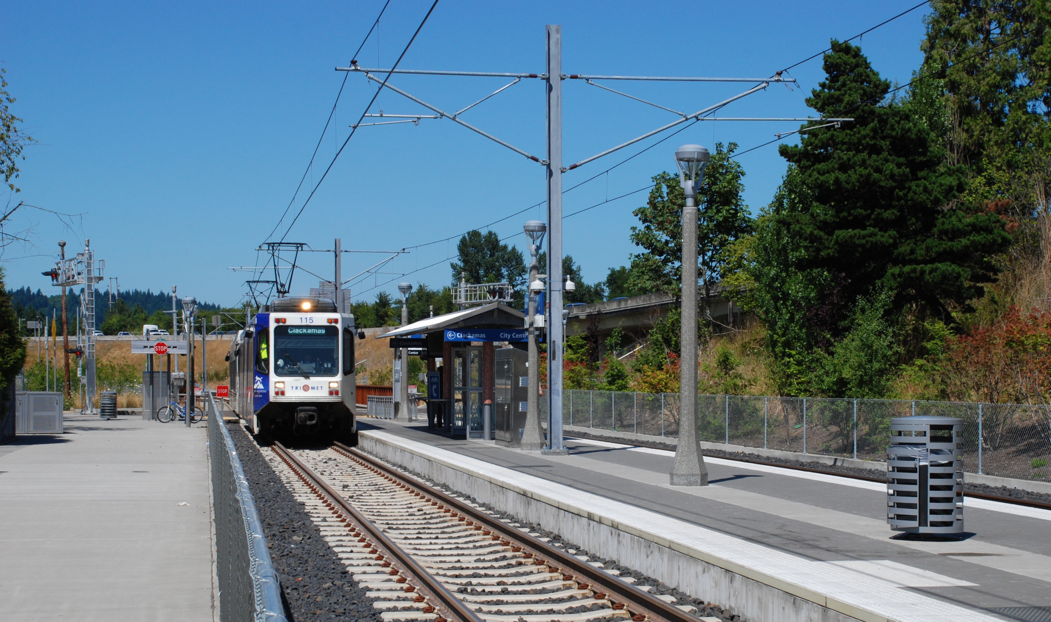 The SE Flavel Street MAX station, on the MAX Green Line, with a southbound train led by car 115 arriving.